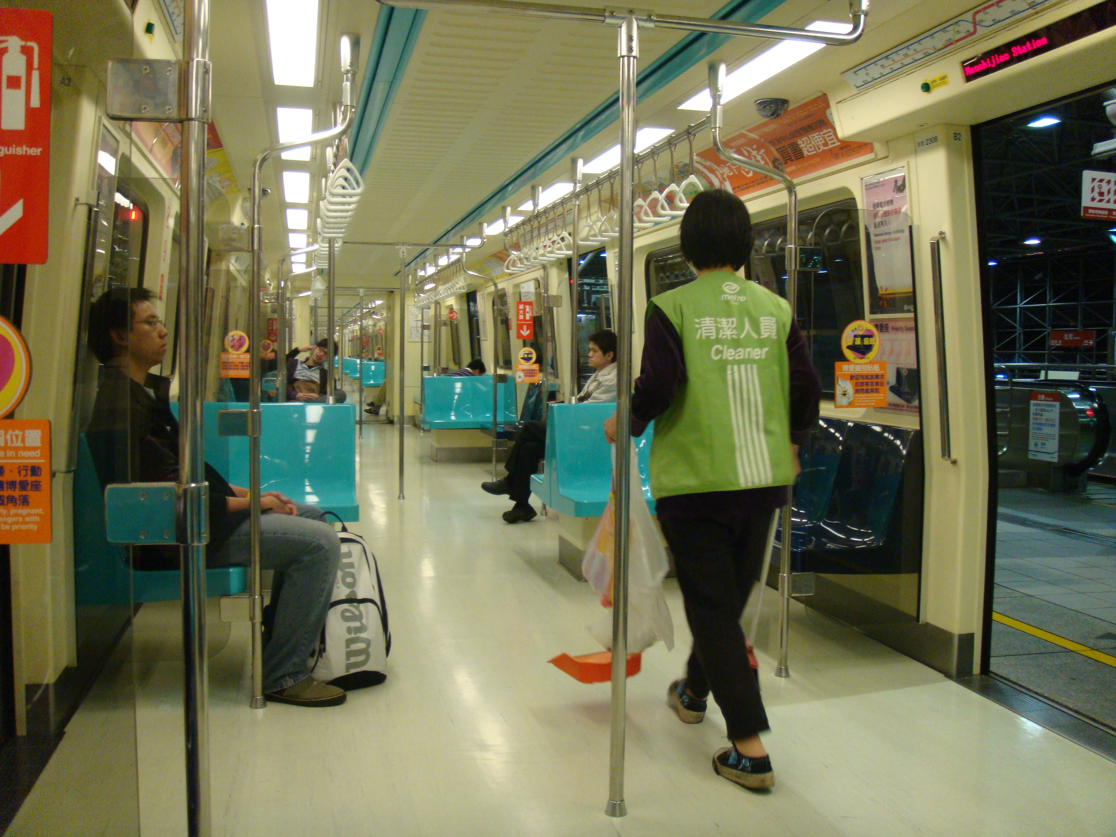 A cleaner in C371 at Beitou Station during turn back, Taipei Metro, Taipei.